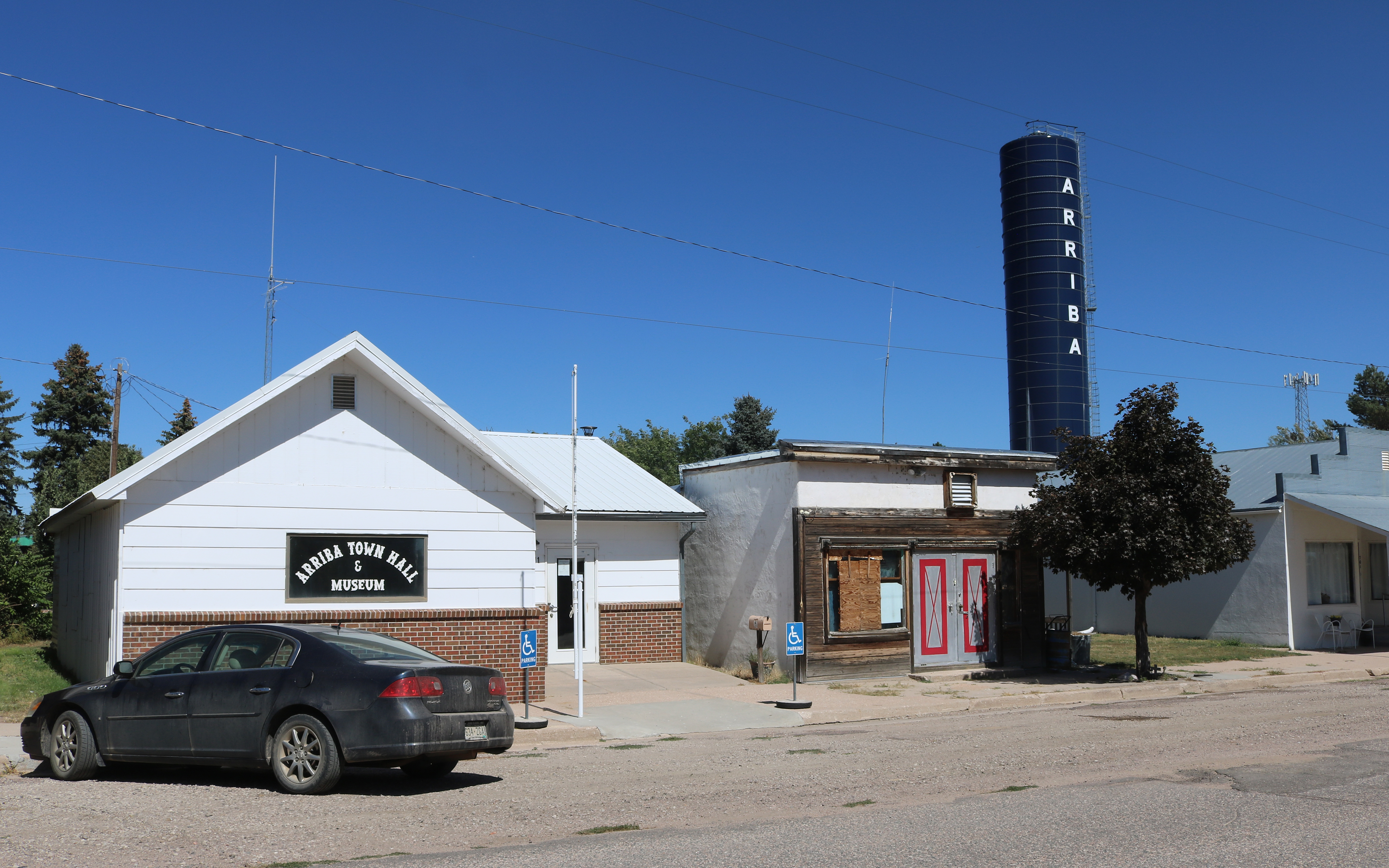 The town hall of Arriba, Colorado in Lincoln County. The town hall and museum is located at 711 Front Street in Arriba.